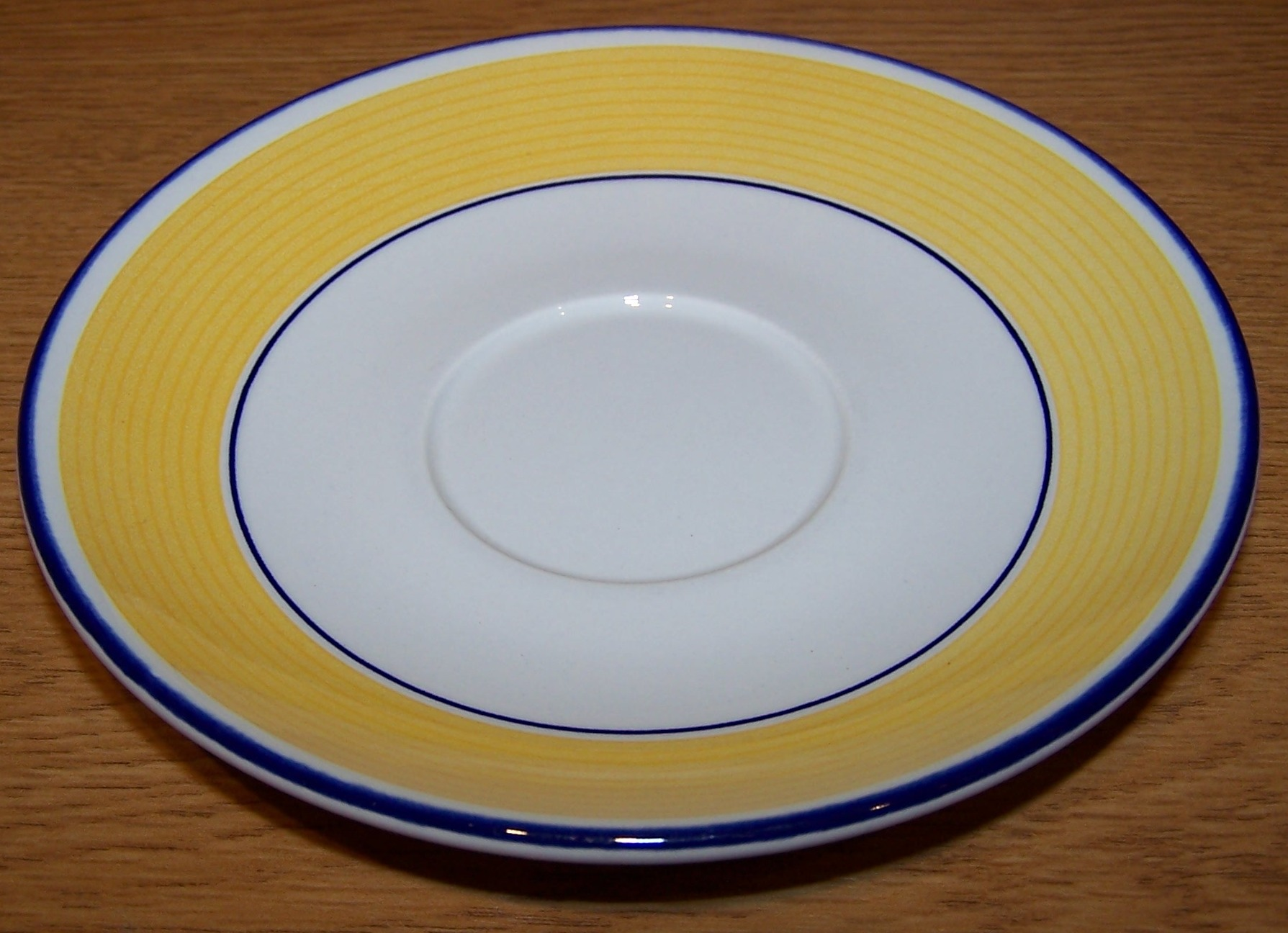 A yellow and white saucer with blue lines.